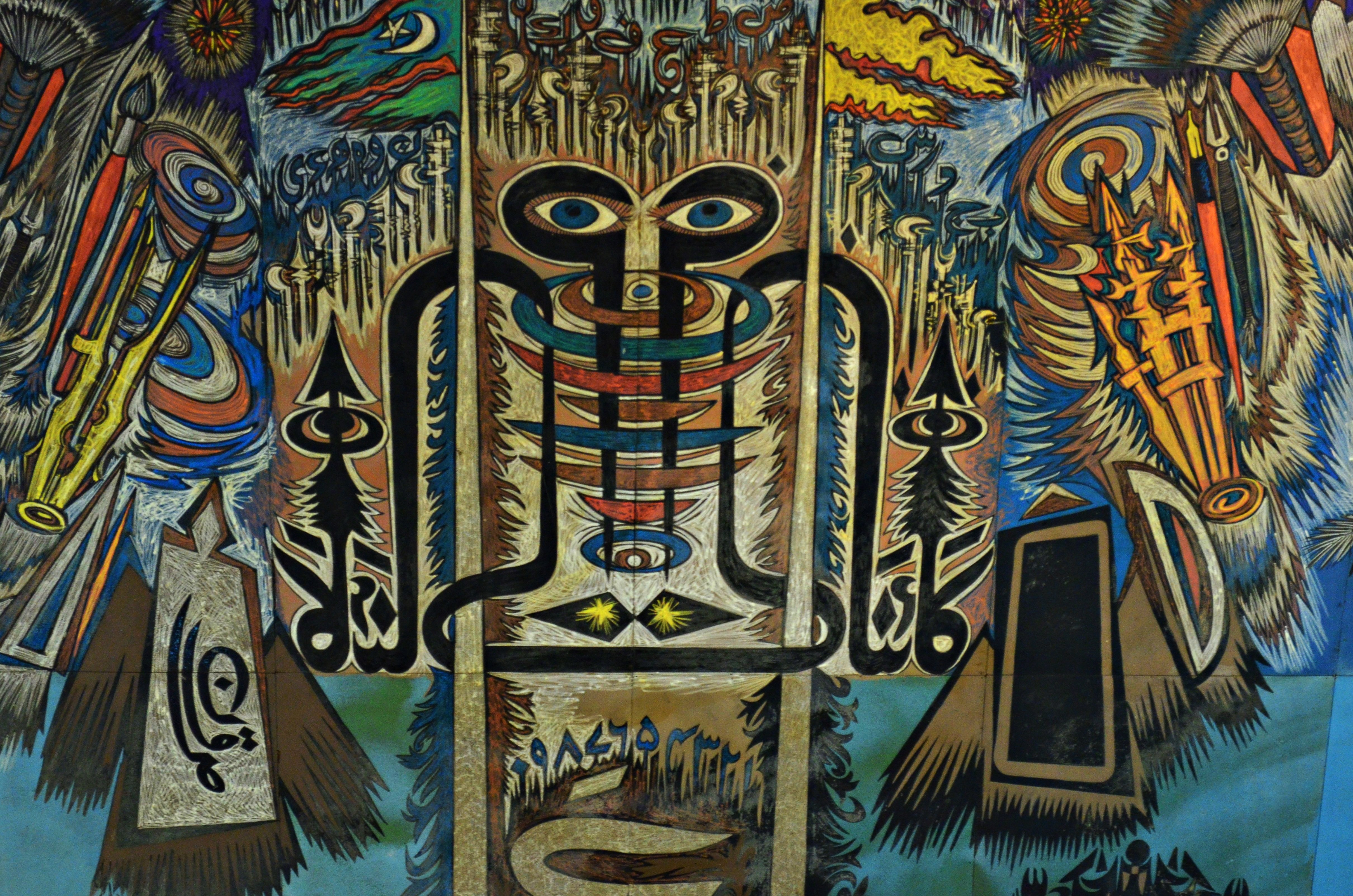 Pakistani Artist Sadequain's mural Arz-o-Samawat at the ceiling of Frere Hall, Karachi, Pakistan. This is a photo of a monument in Pakistan identified as the SD-34